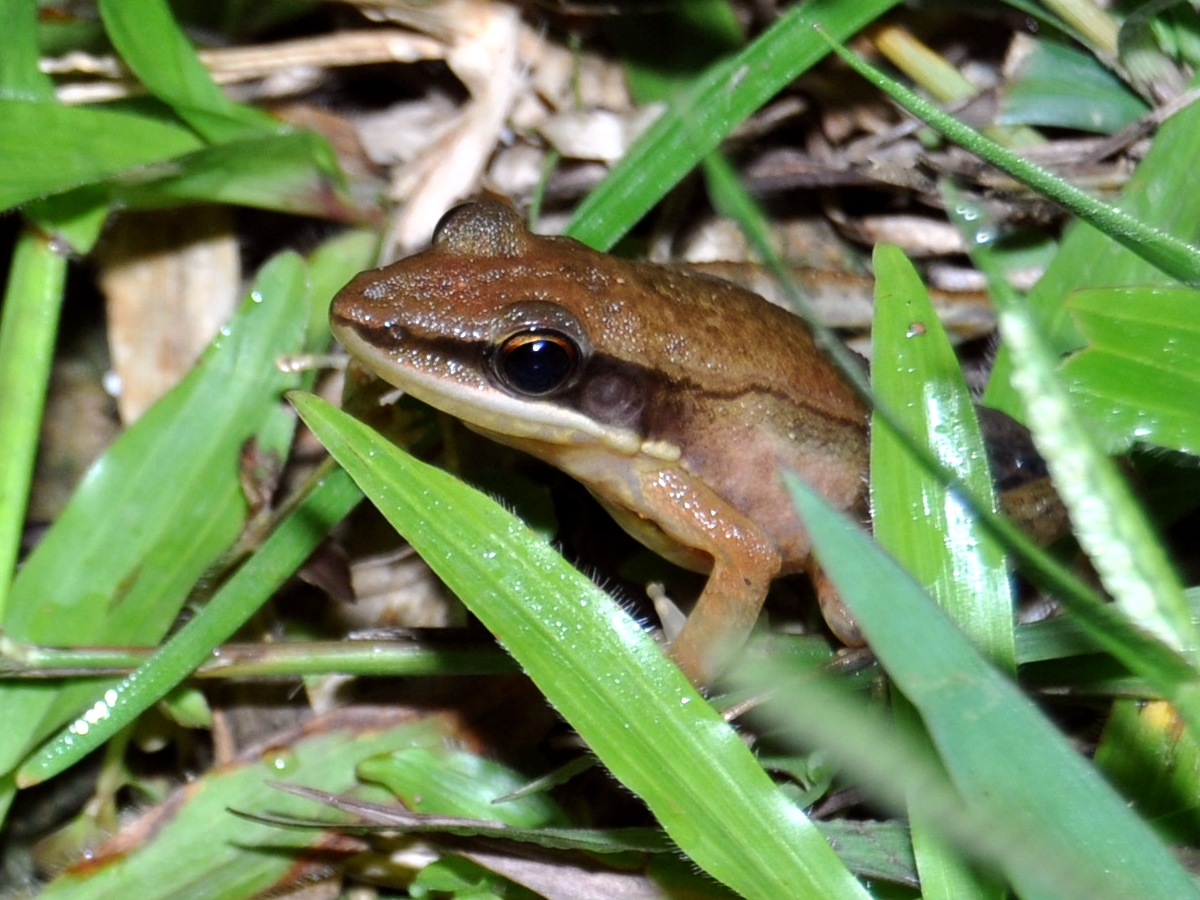 Hylarana nicobariensis, male, from Jambi, Indonesia